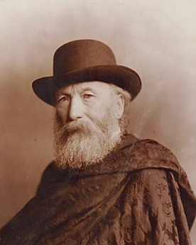 James Stephens (1824 - 28 April 1901) was an Irish Republican and the founding member of the Fenian movement in Dublin in 1858, later to become known as the I.R.B. or Irish Republican Brotherhood